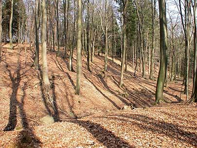 view to the Schnippenburg from south